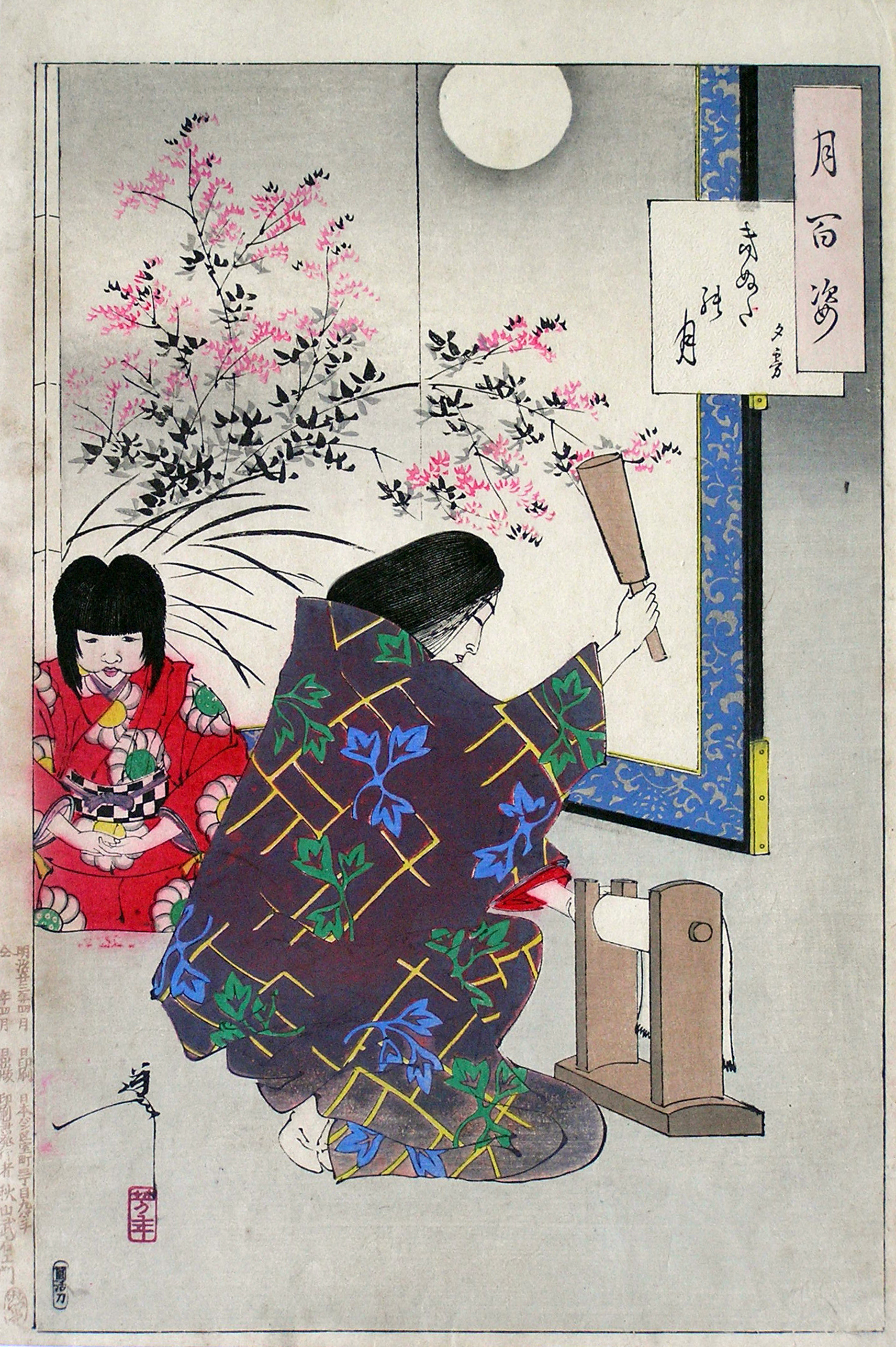 Clothes-beating moon (Kinuta no tsuki) Publisher: Akiyama Buemon Vertical Oban